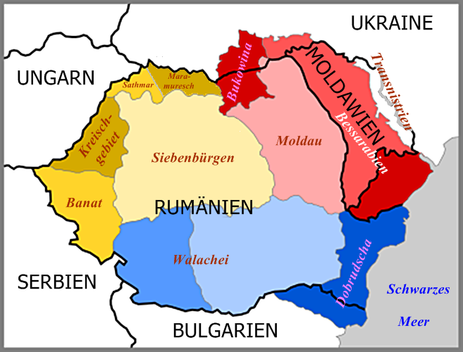 Map of historical regions of Romania